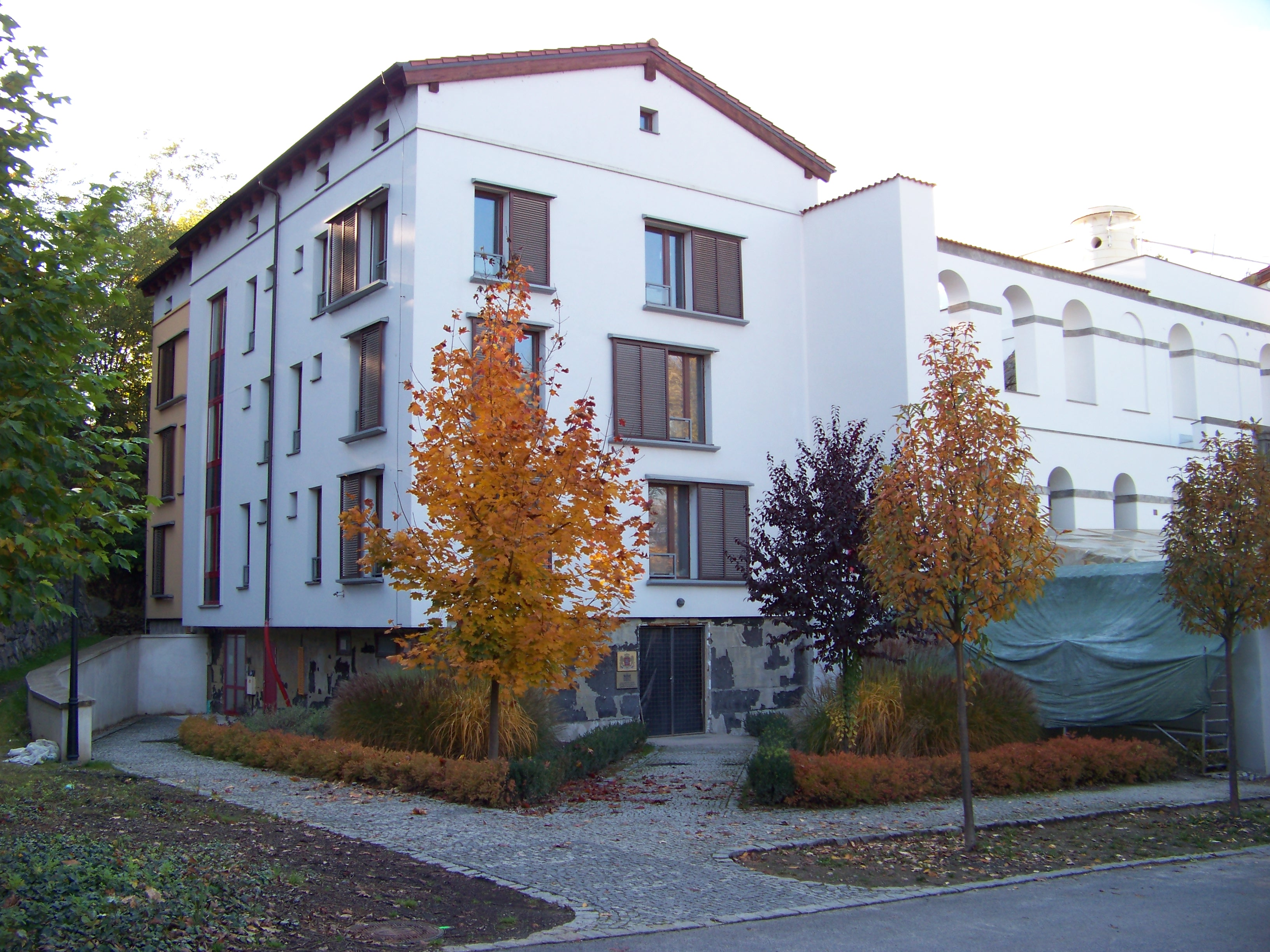 Prague-Bubeneč. Mlýnská 22/4, Kaiser Mill. - OpenStreetMap (Info)